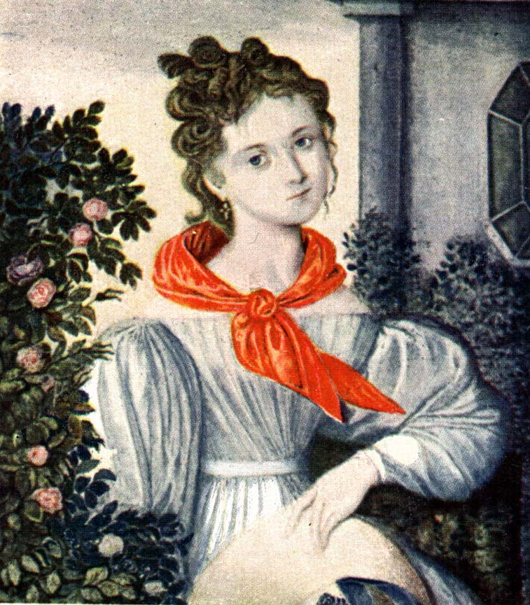 Norwegian author Camilla Collett (1813-95) drawn by her father, the reverend and constitution father Nicolai Wergeland